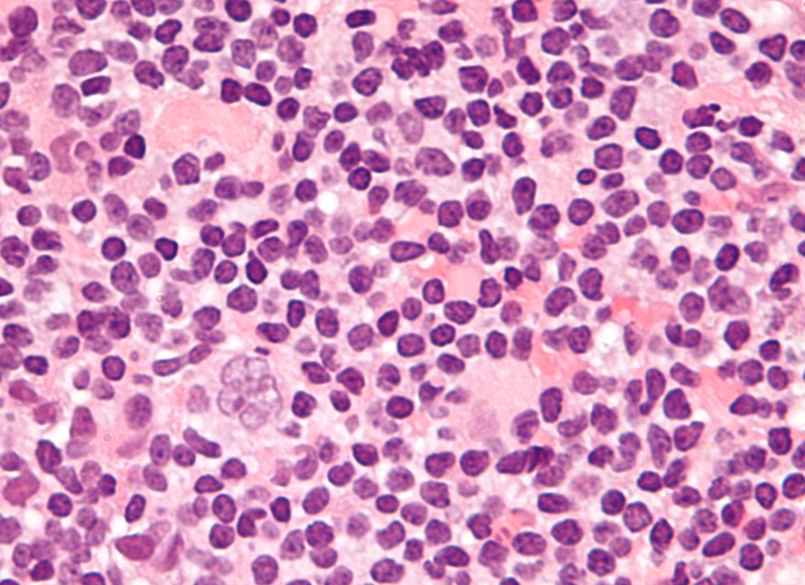 Very high magnification micrograph of nodular lymphoctye predominant Hodgkin lymphoma, abbreviated NLPHL, with a popcorn-shaped Reed-Sternberg cell. H&E stain. Related images High mag. Very high mag. Very high mag. cropped.